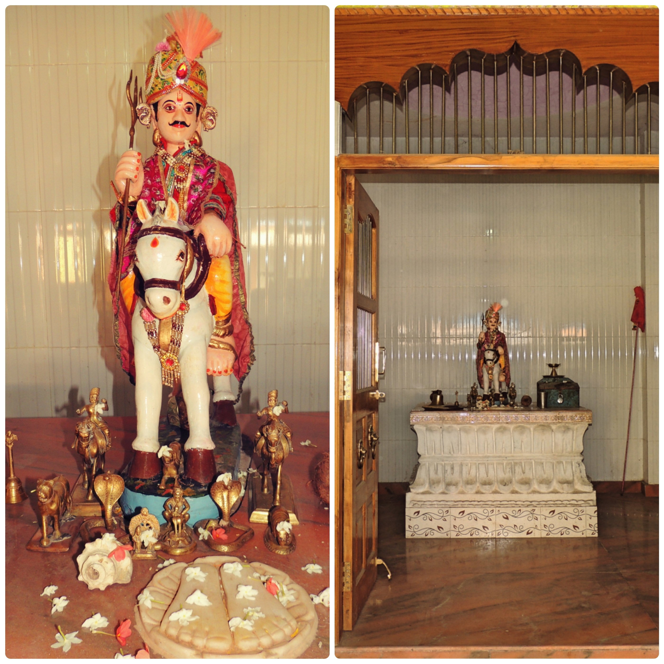 A huge fair is organised annually, generally in April, to celebrate the blessings of the Lord Bahiri Dev.Procession of Bahiri Dev is arranged.A Traditional competition of raising Kathi is held.